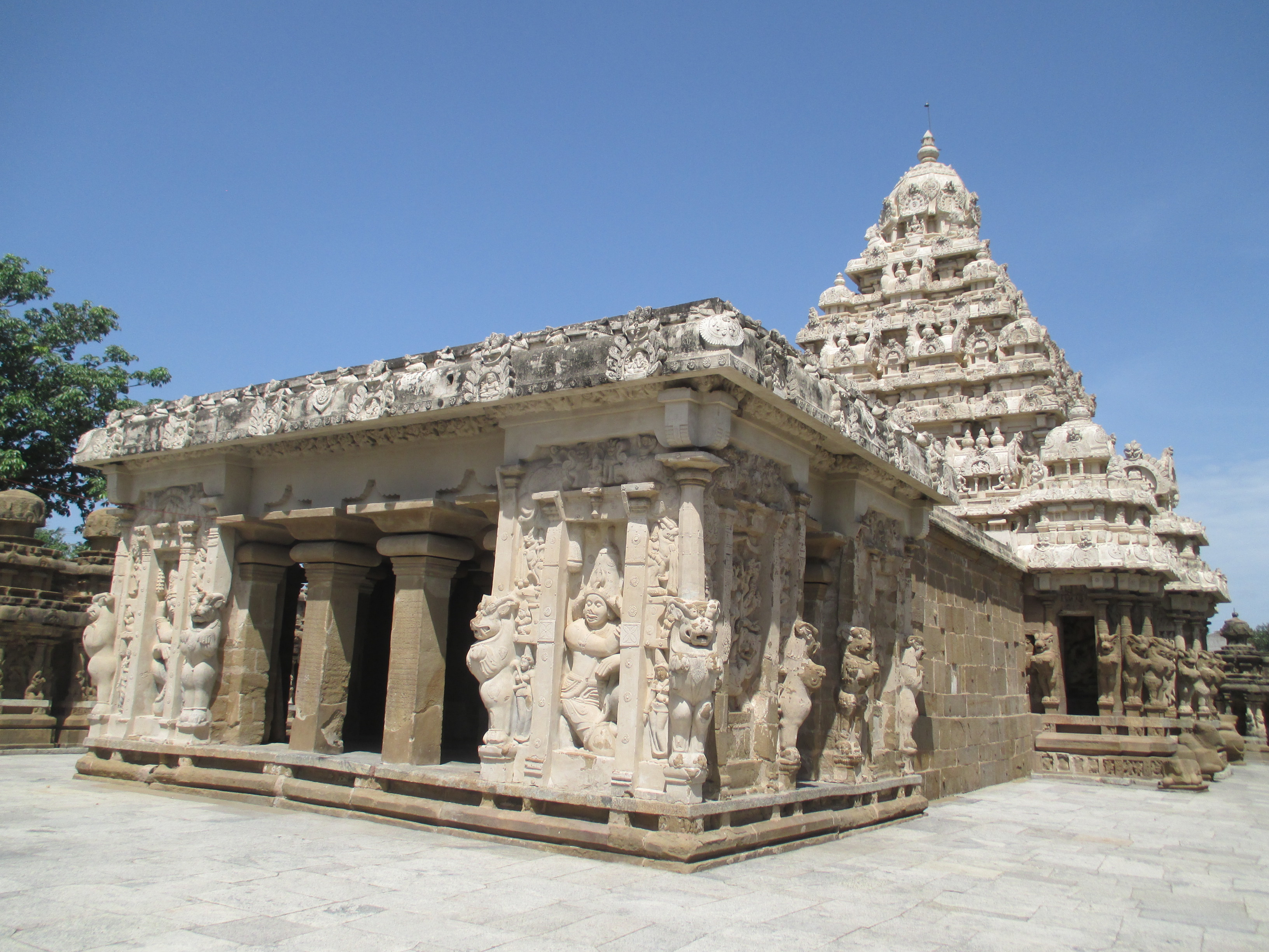 Kailasanathar temple